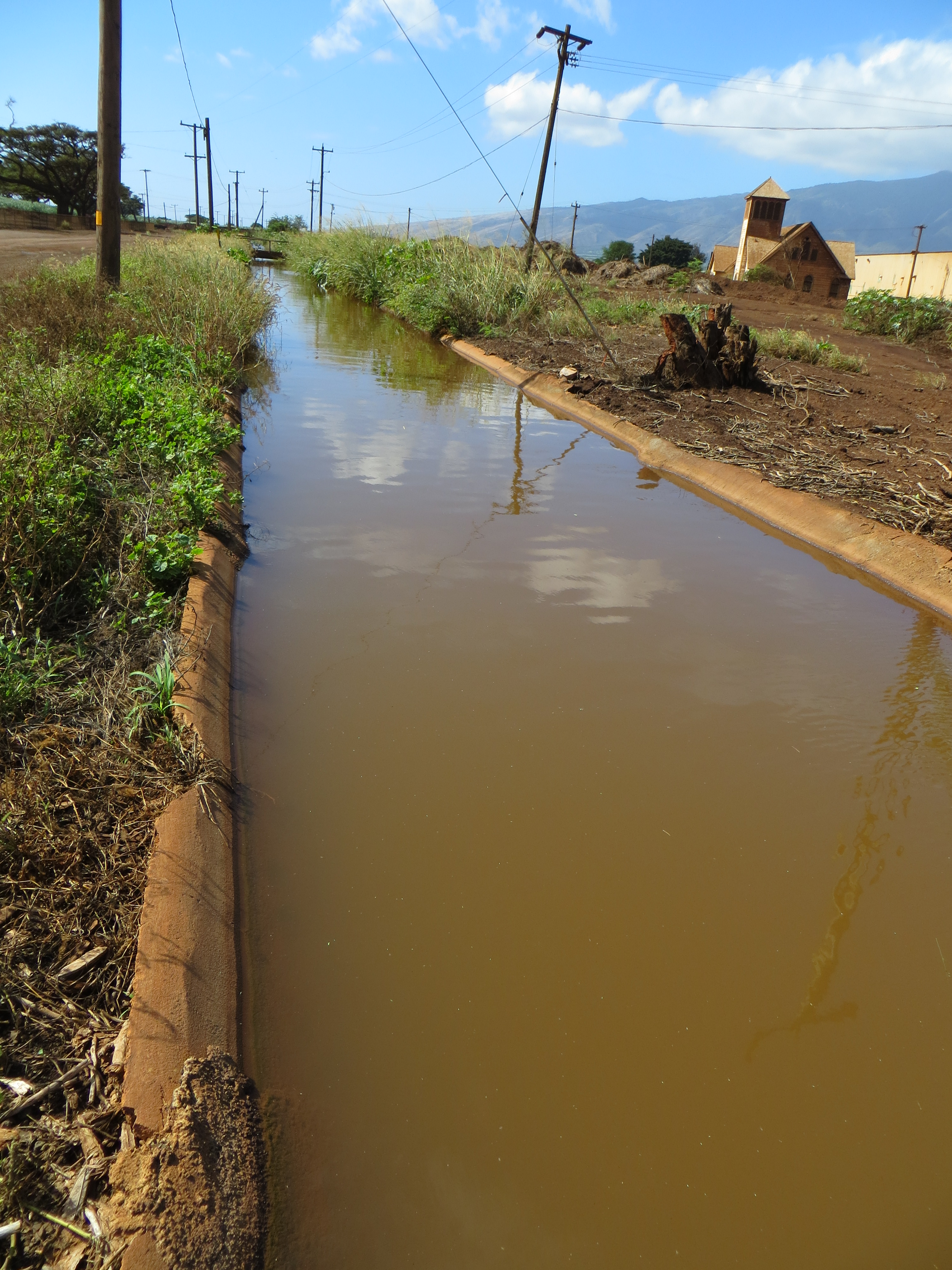 Irrigation ditch in front of Puunene School on Camp 5 Road, Puunene, Maui, Hawaii, where teacher Soichi Sakamoto's Three-Year Swim Club practiced